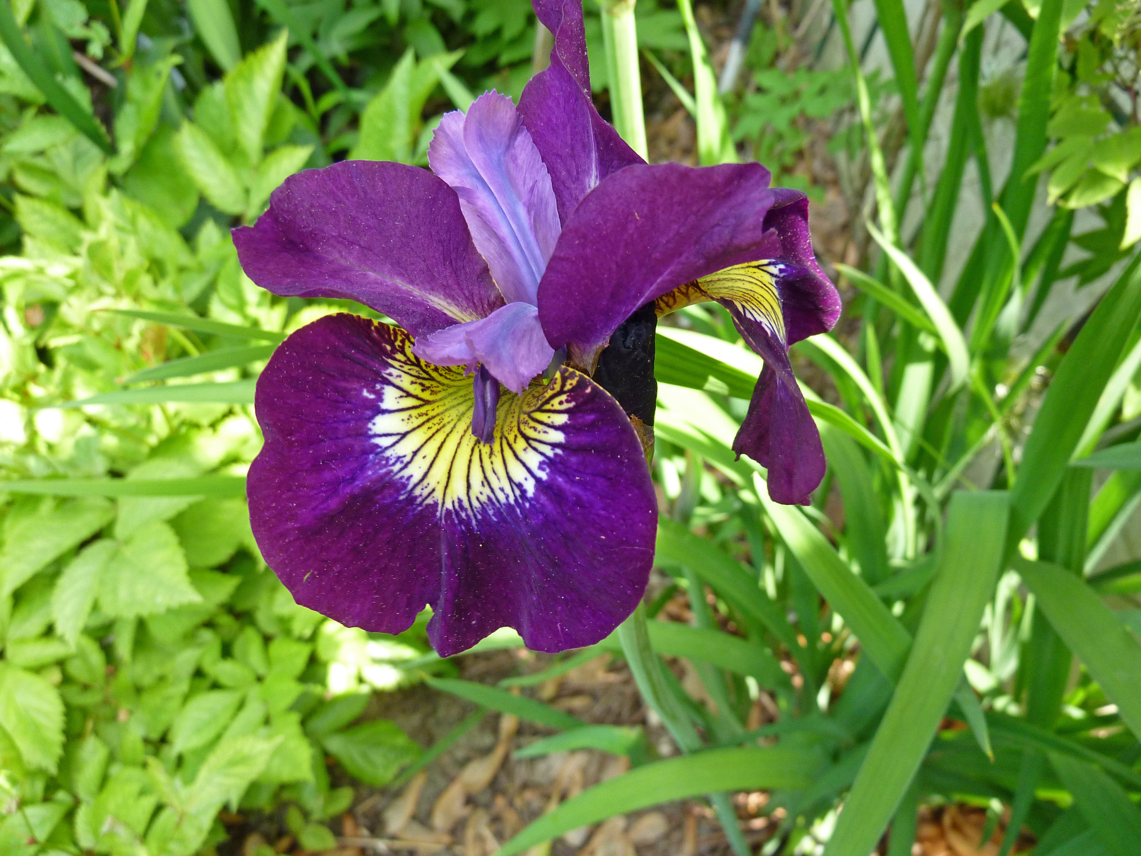 Iris sibirica Sultan's Ruby' flowering in the garden of botanist Robert R. Kowal in Madison, Wisconsin